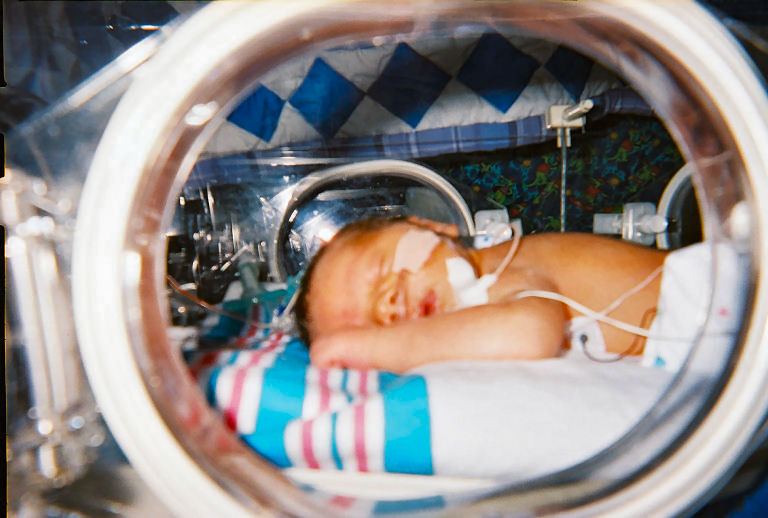 A human infant sleeps in his incubator at a neonatal intensive care unit. Photo by Chris Horry at Arnold Palmer Hospital in Orlando, Florida, November 2002. (The infant is now a healthy two year old.)